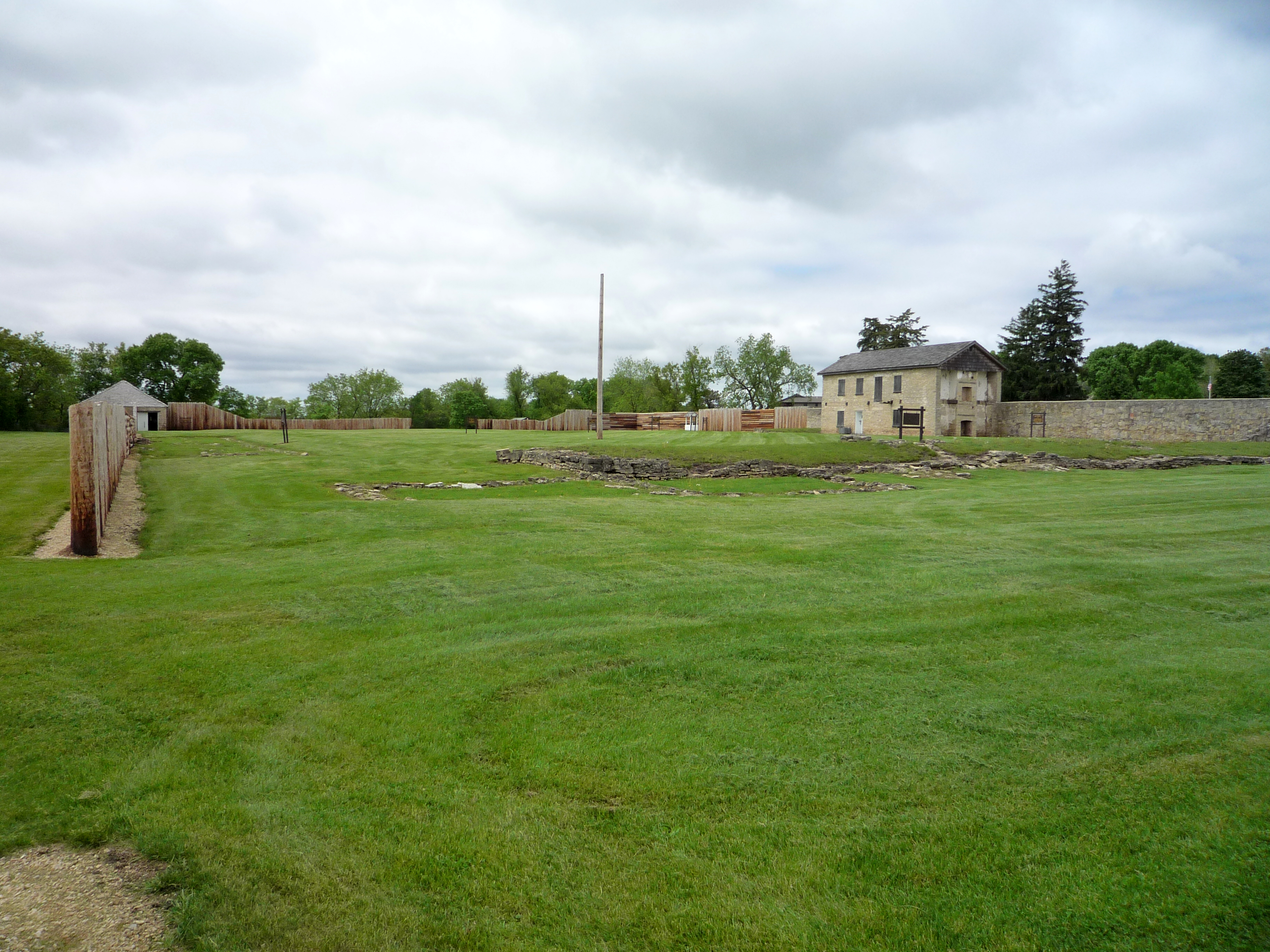 Looking northwest from the southeast corner of Fort Atkinson in Fort Atkinson, Iowa, USA. In addition to the reconstructed stockade, two restored structures are visible: on the left is one of two cannon houses, on the right is part of one of the four primary barracks. The pole in the center was the parade ground at the center of the fort.